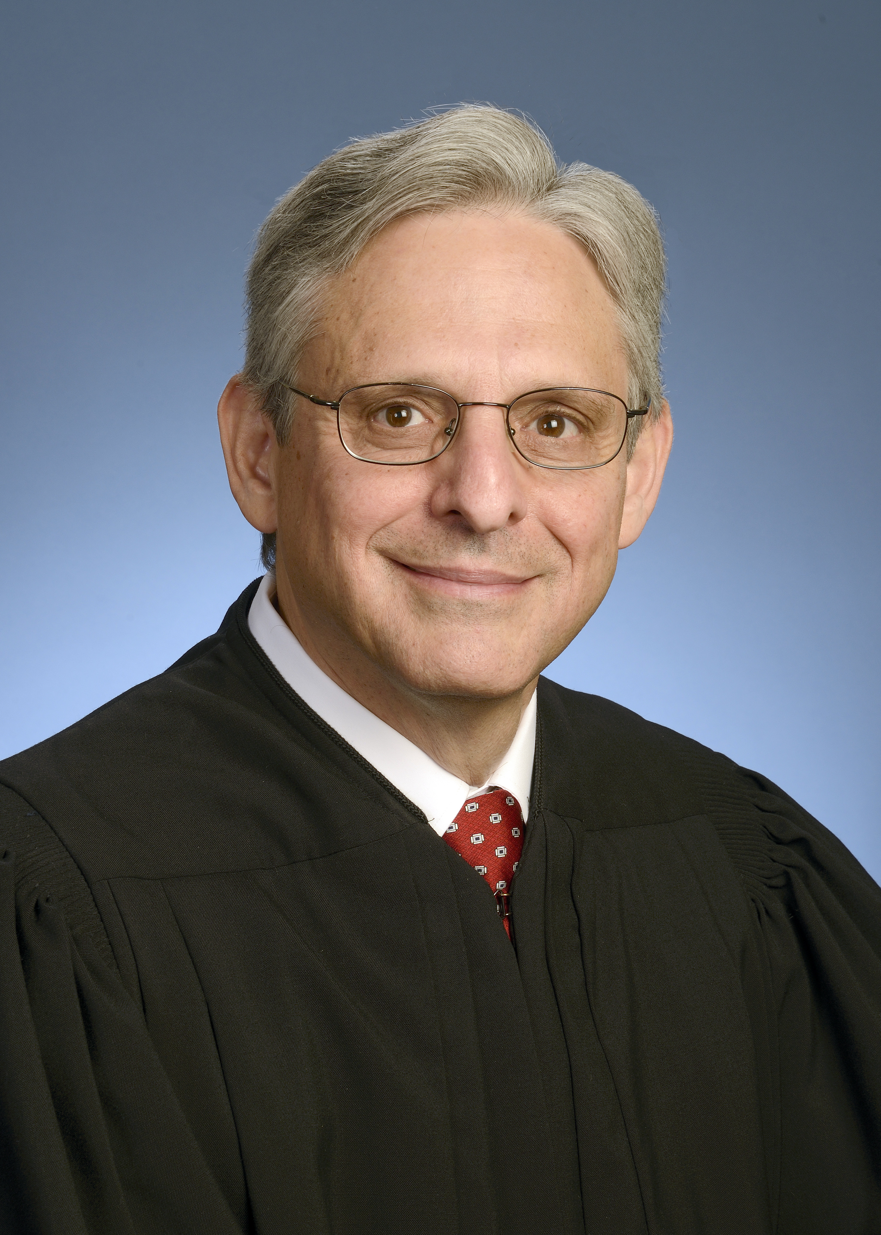 Merrick Garland photograph was provided to press by the United States Court of Appeals for the District of Columbia Circuit in 2016 on occasion of Garland's nomination to the Supreme Court of the United States by US President Barack Obama. At the time Garland was chief judge of the United States Court of Appeals for the District of Columbia Circuit, having served as a federal judge on the court since 1997.